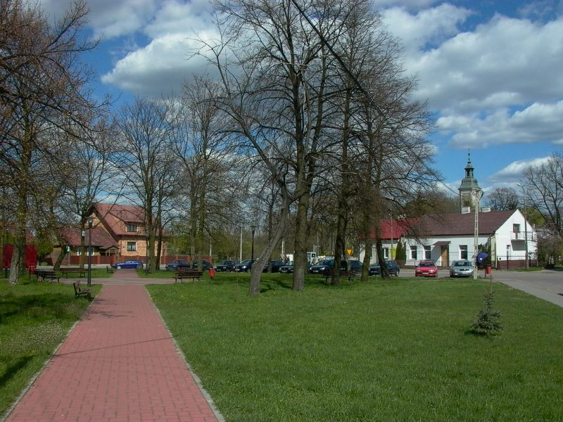 Plac Tysiąclecia (Millenium Square) in Czersk, Poland.